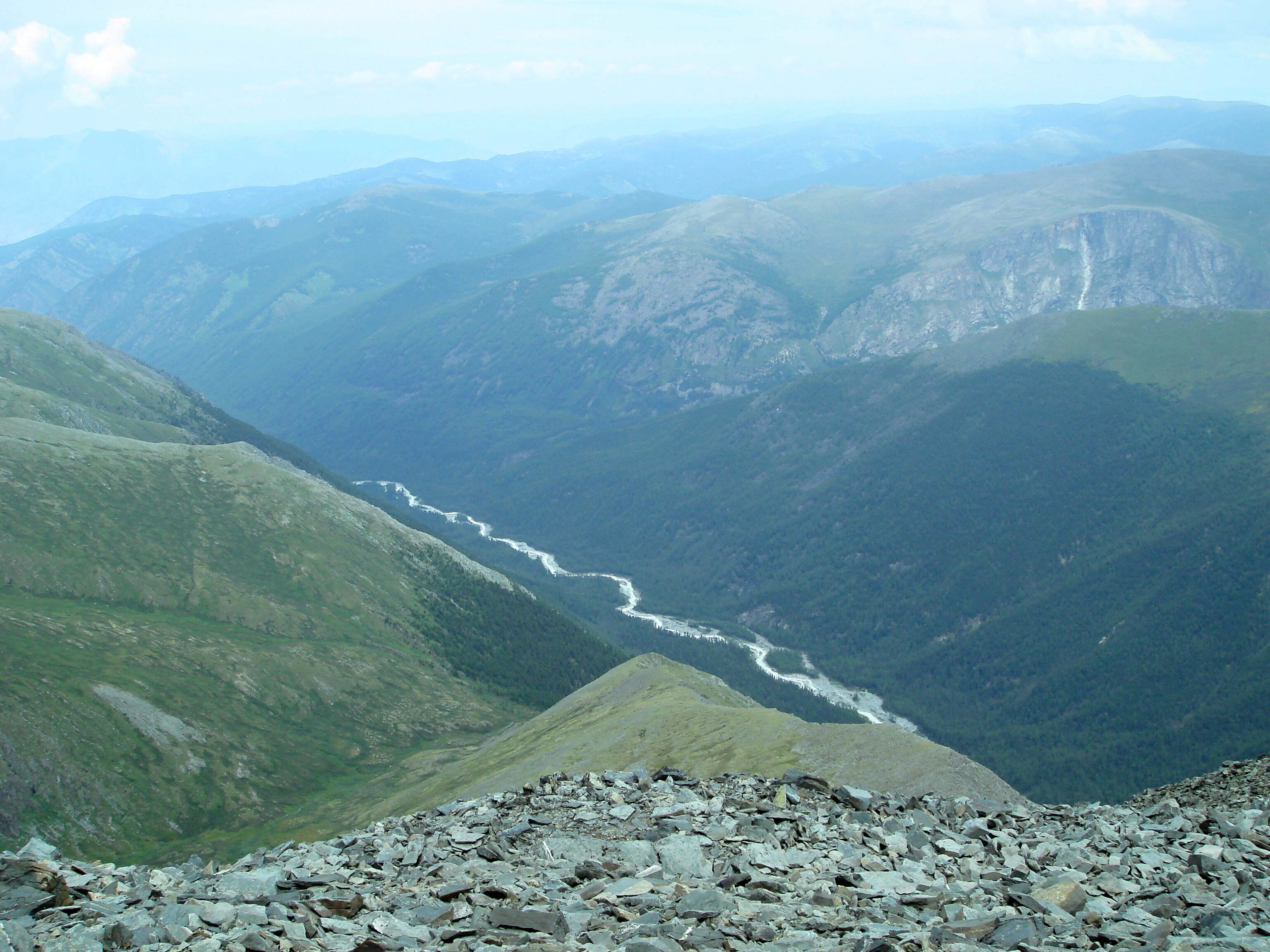 Valley of the Akkem River as seen from the Kara-Tyurek Pass (Altay Republic, Russia).